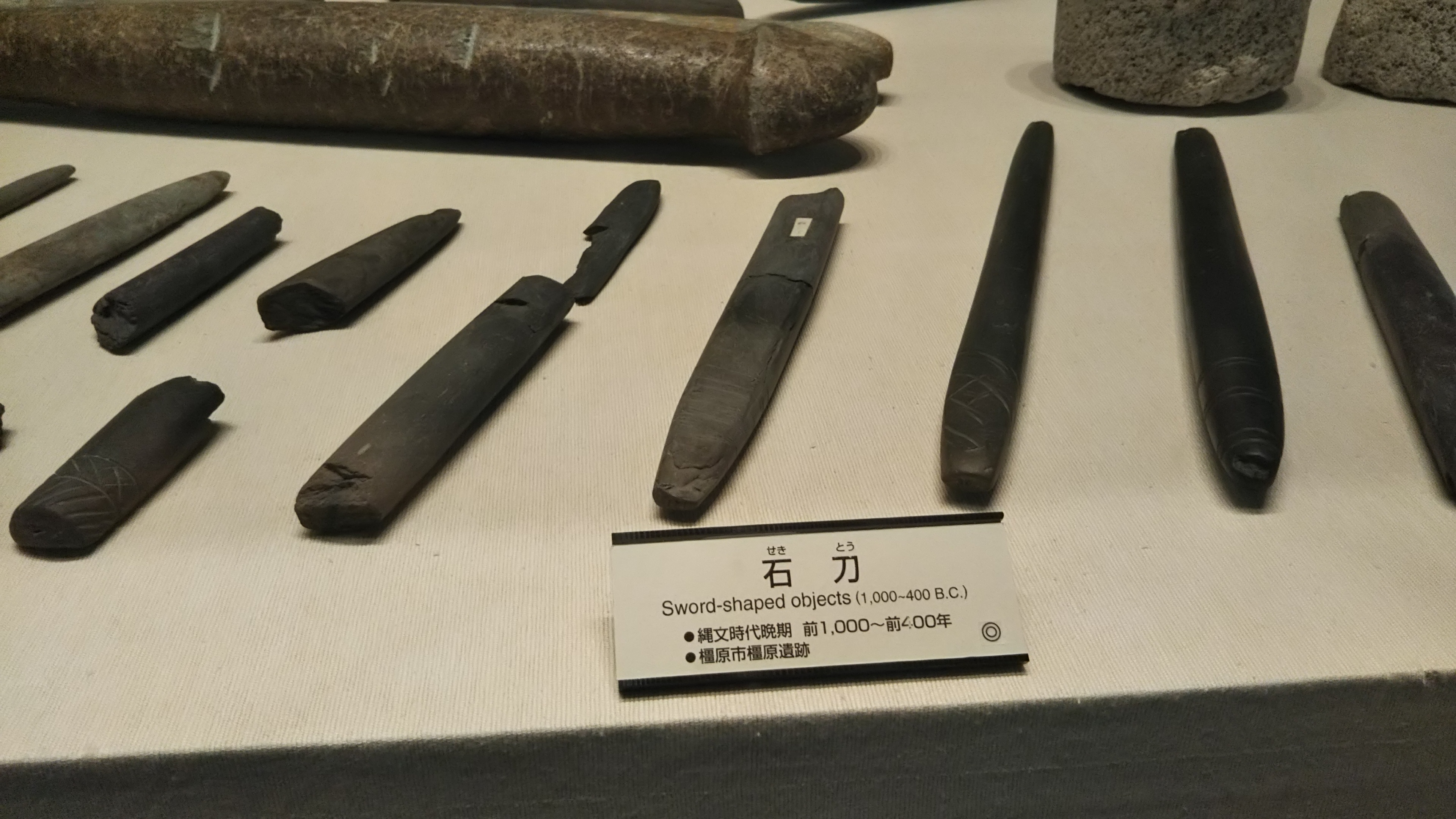 Sword-shaped objects made of stone, in the late Jōmon period (1000-400 B.C.), from Kashihara, Nara, Japan.